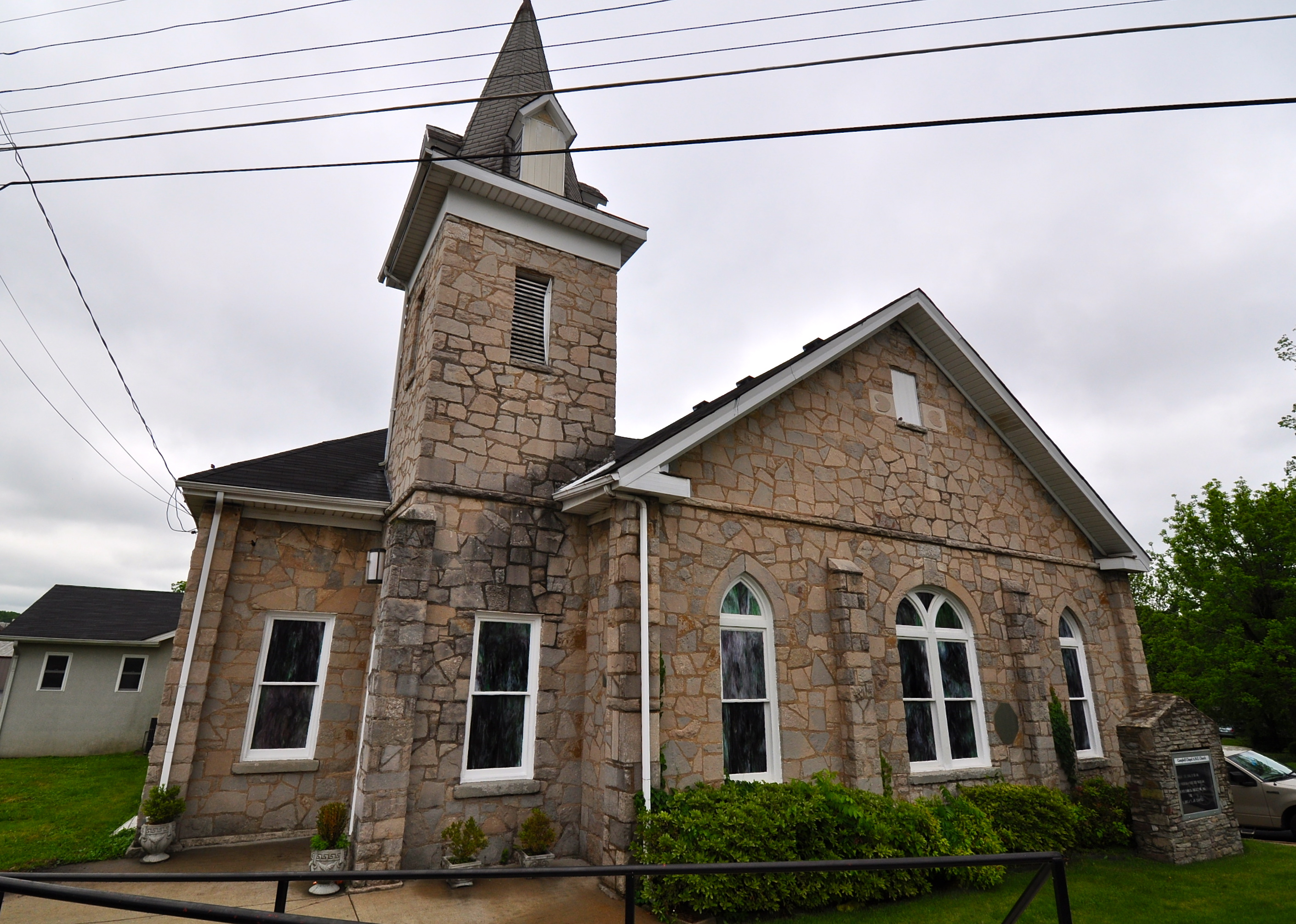 Located at Pulaski, Giles County, Tennessee. NRHP Reference #00000725, listed 22 June 2000.